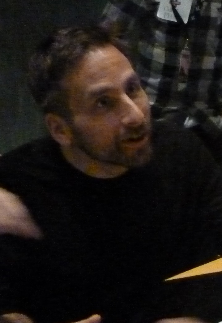 Ken Levine at PAX East 2011